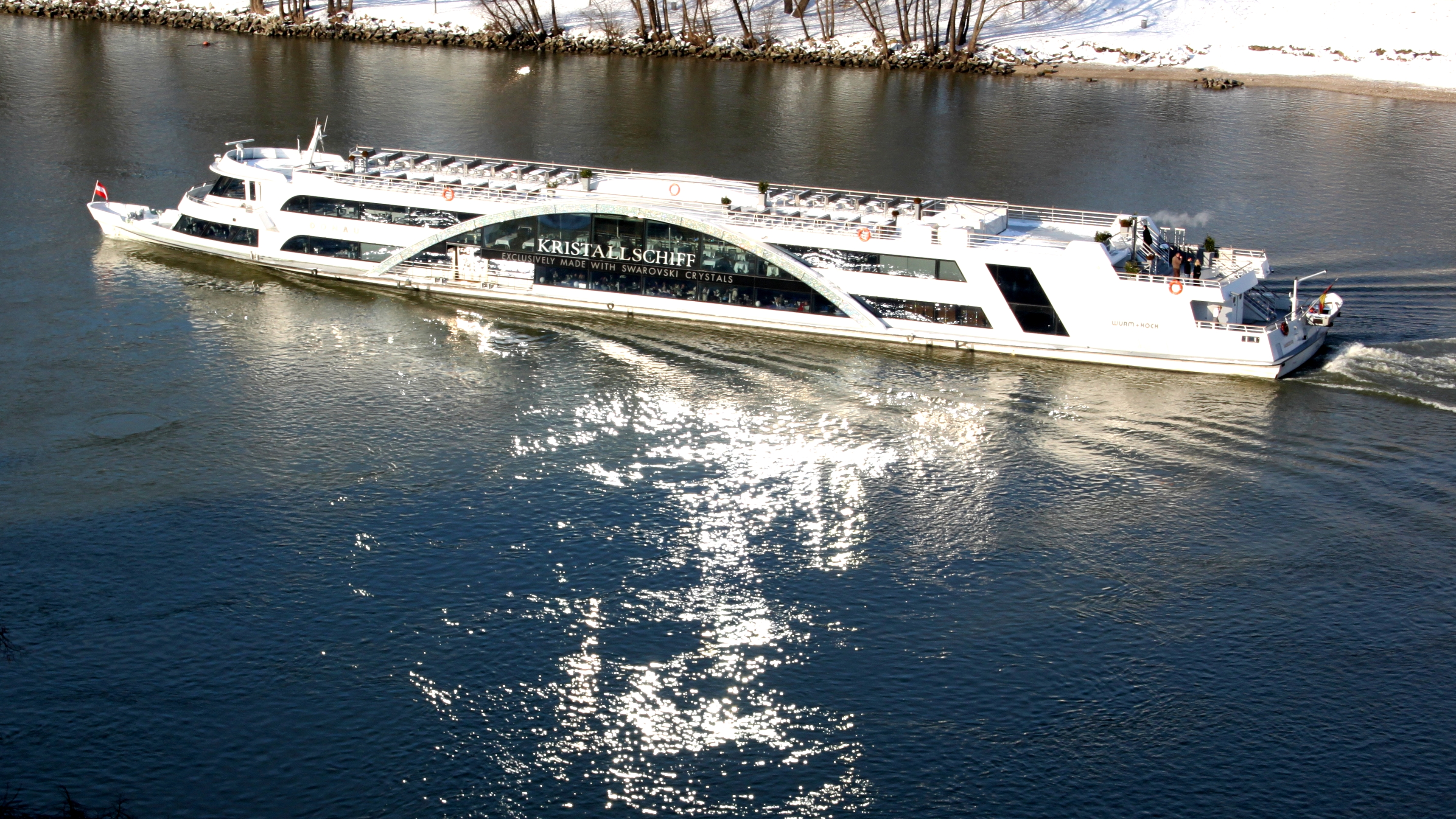 „Kristallschiff“ (engl. „Crystal Ship”; formerly „MS Donau“) on the river Danube at Linz. Third biggest vessel of the Danube shipping company Wurm + Köck. It has a length of 78 metres. Its cut crystal glass equipment was provided by D. Swarowski (Wattens, Tyrol).